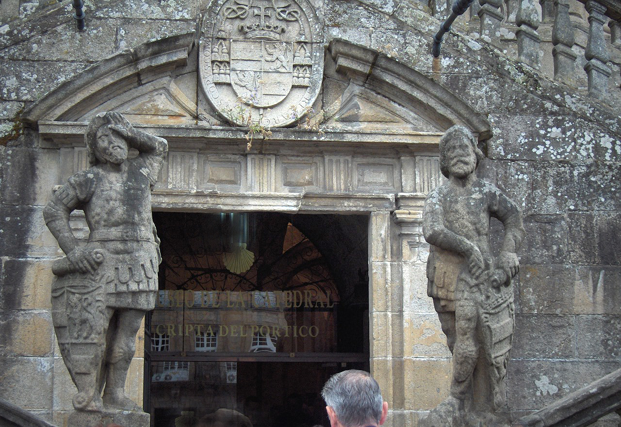 Statues of David and Solomon on the flight of steps leading to the cathedral of Santiago de Compostela, Spain